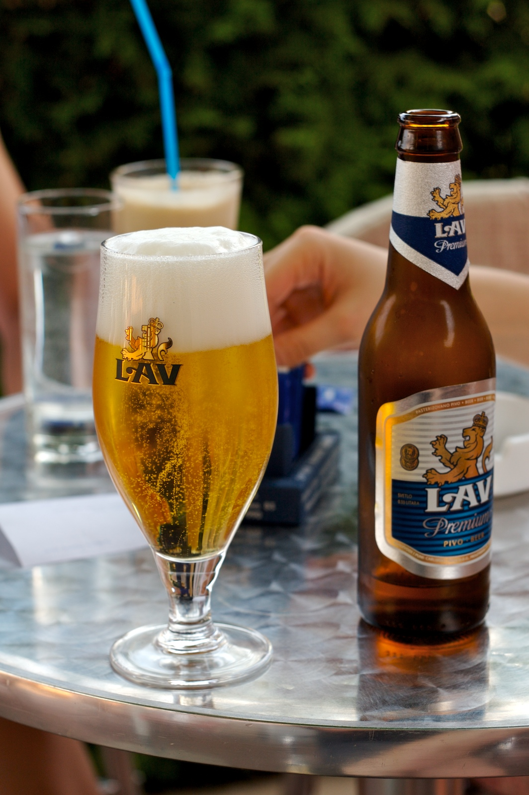 Lav pivo beer, served in a little pub of Ченеј (Čenej)